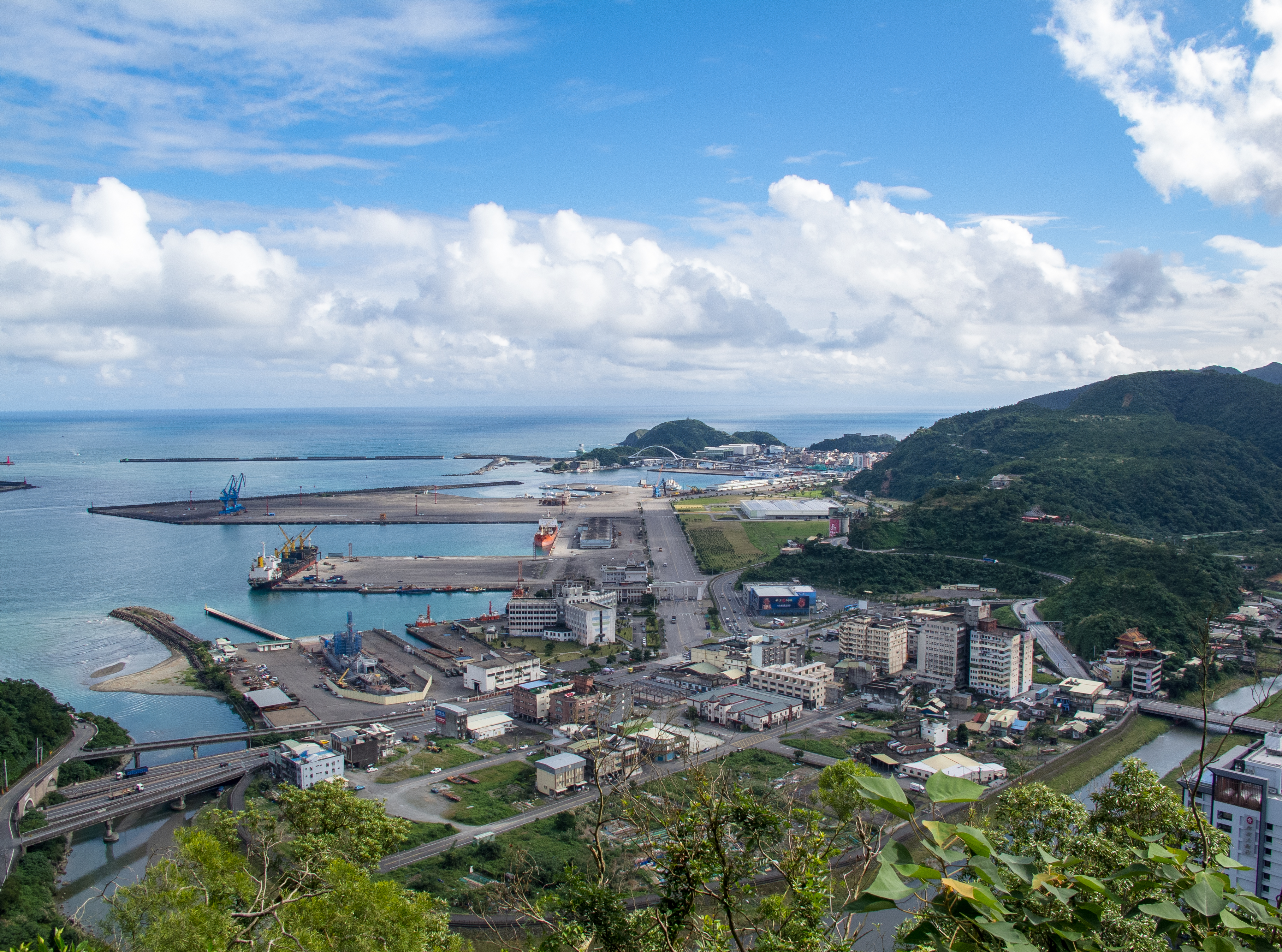 View over Port of Su'ao with Nanfang'ao in the distance.